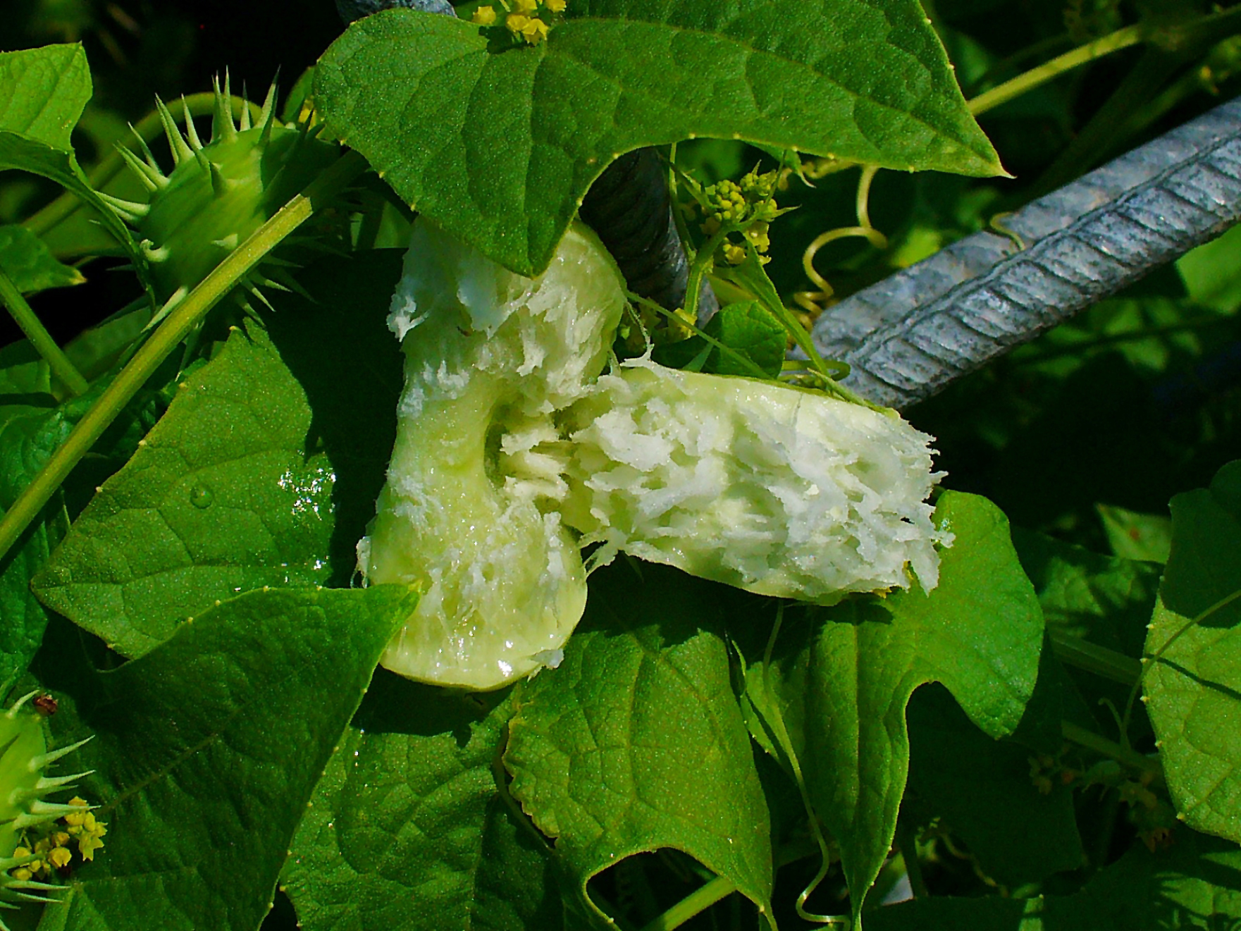 Cyclanthera brachystachya, Cucurbitaceae, Bolivian Cucumber, “exploded” fruit; Botanical Garden KIT, Karlsruhe, Germany.